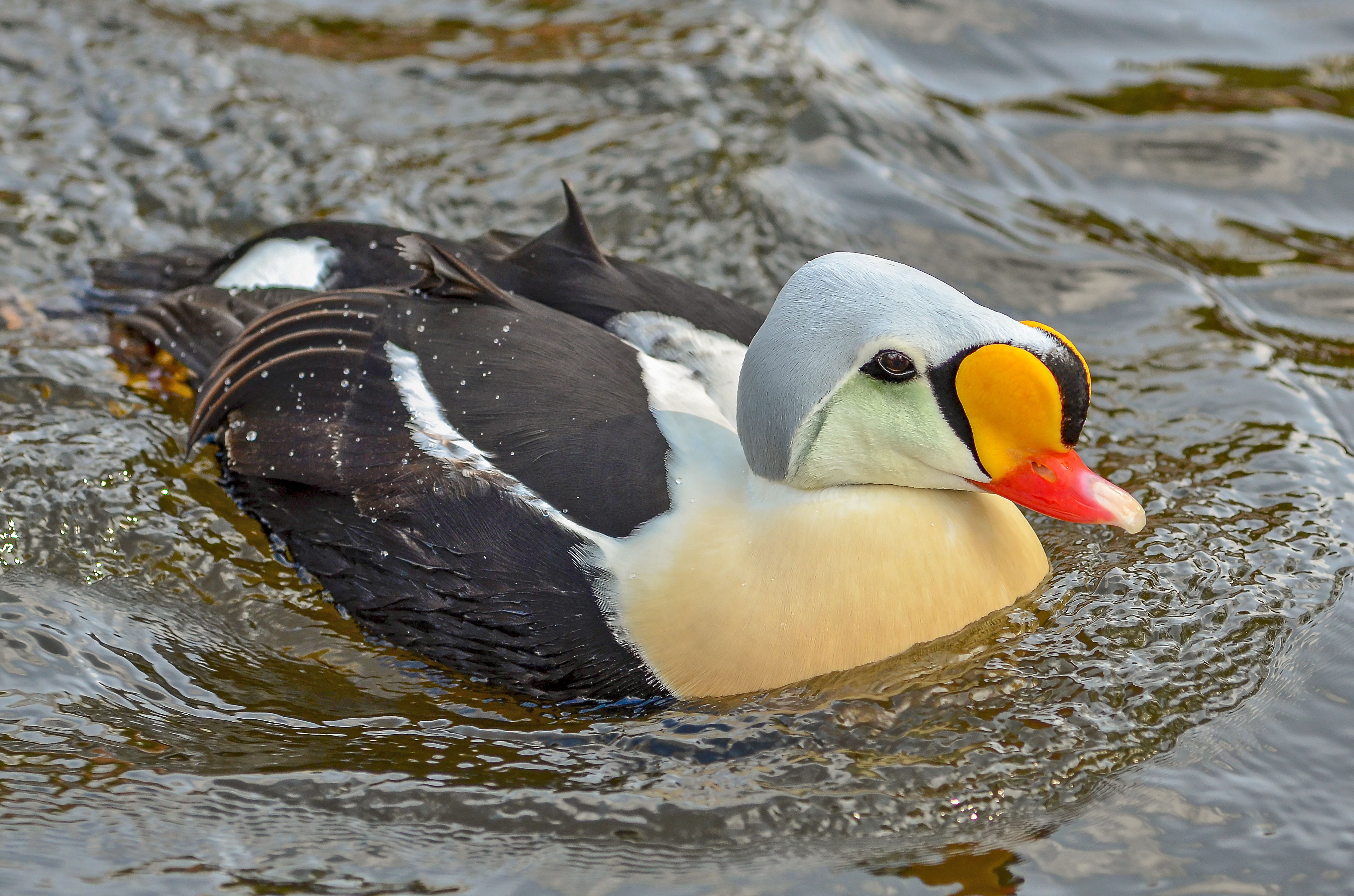 King Eider (Somateria spectabilis) (male) at Weltvogelpark Walsrode (Walsrode Bird Park, Germany)